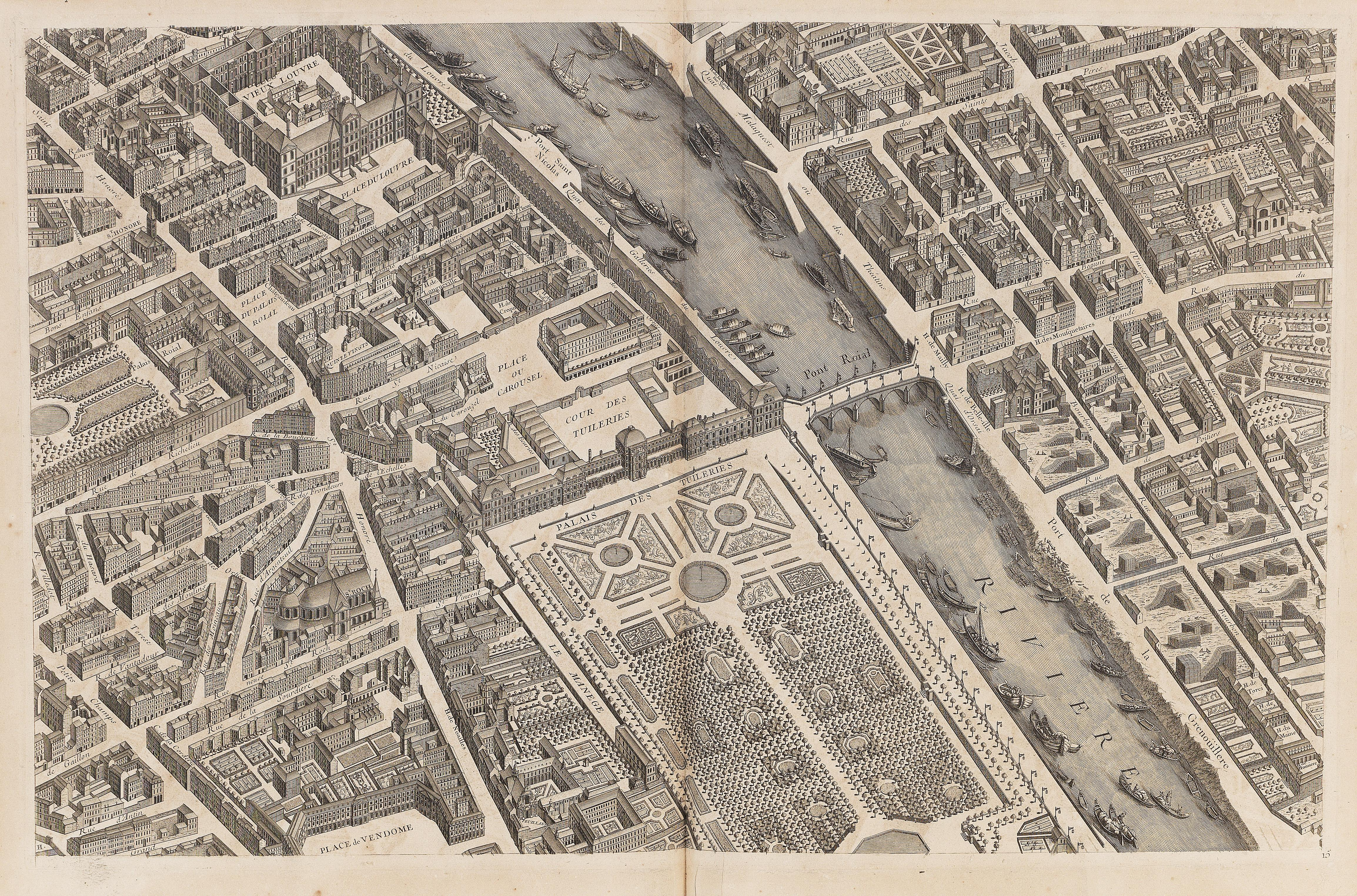 Plate 15 of the Turgot map of Paris